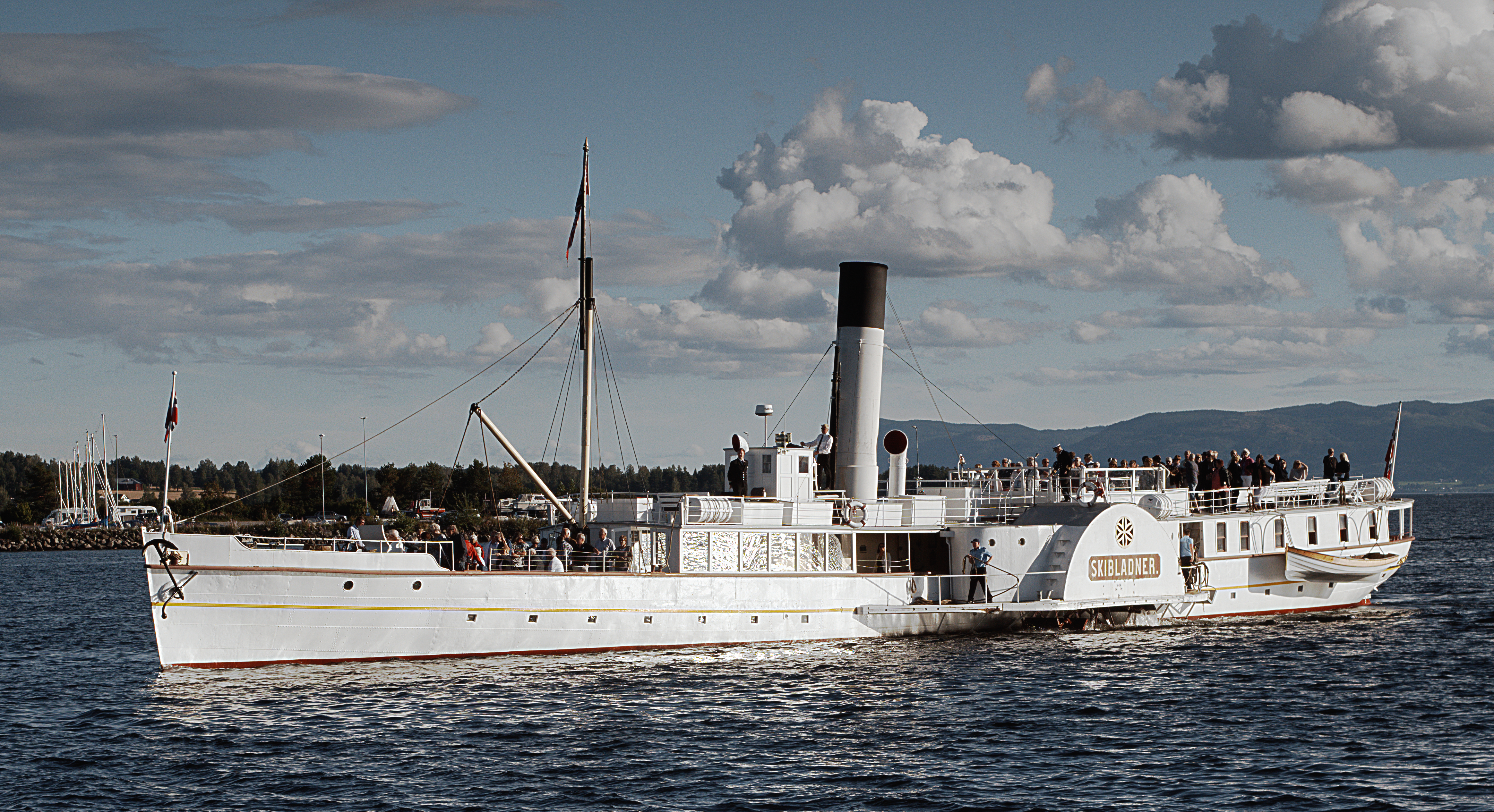 Skibladner in Hamar 2015.